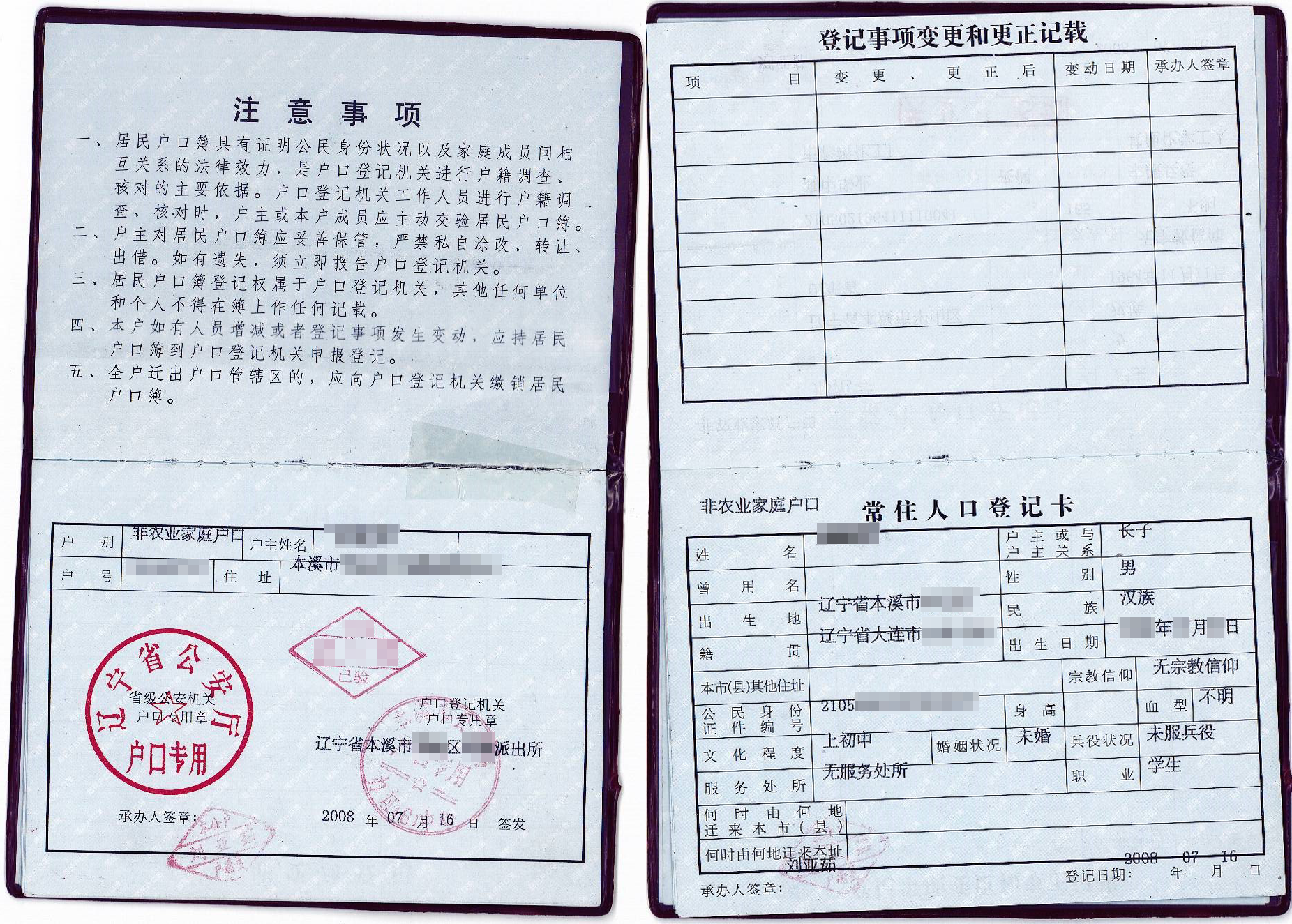 The inside pages of hukou booklet in China 中文（中国大陆）: 中国居民户口簿内页